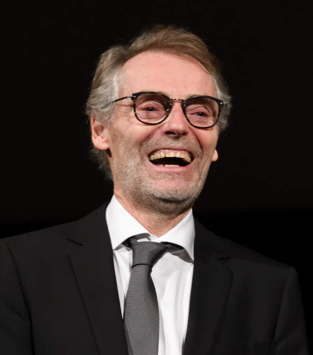 Dan Laustsen with Git Scheynius at the Stockholm International Film Festival